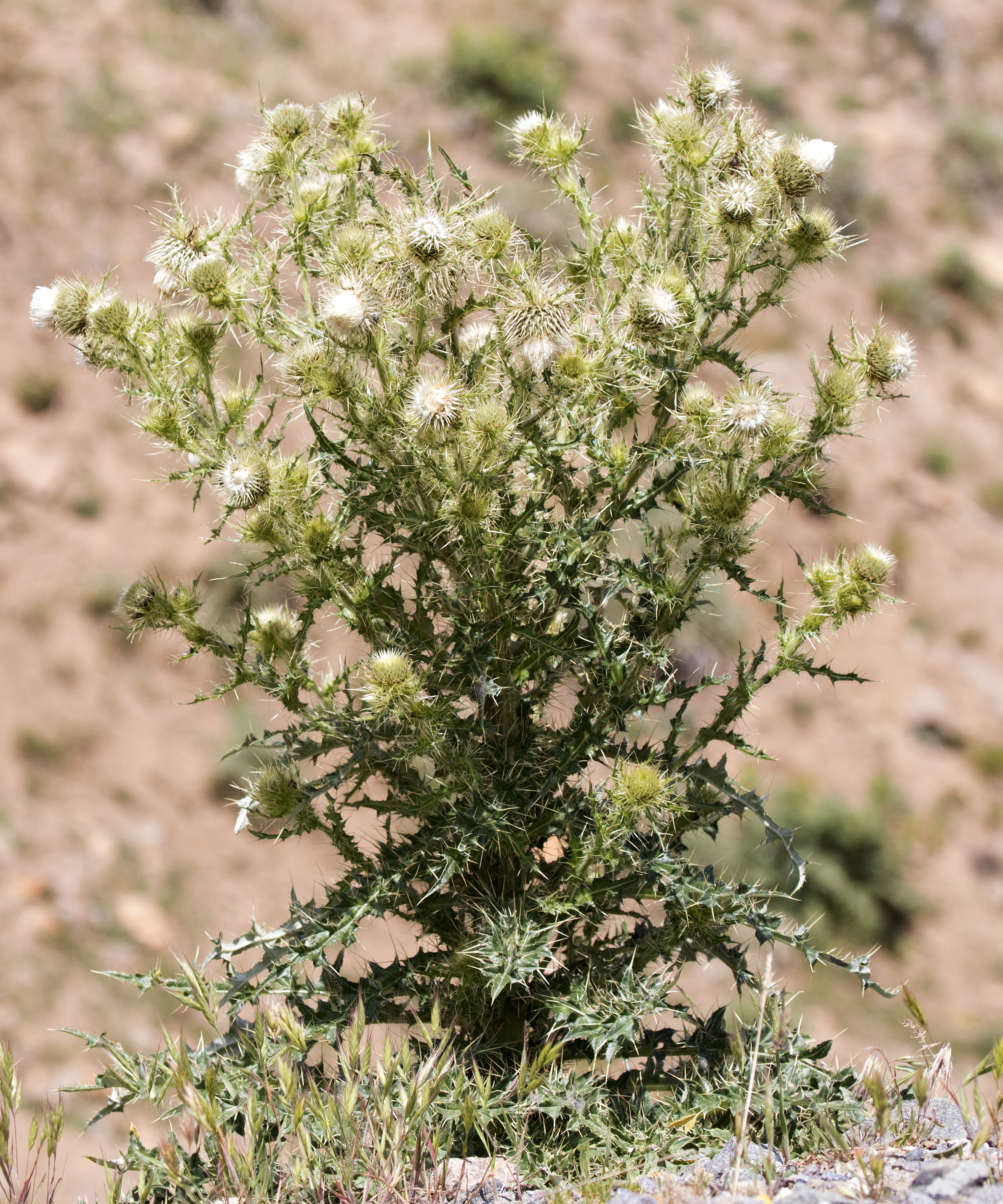 Hedgehog thistle (Cirsium echinus) in the southern slopes of Eğribel Pass, Şebinkarahisar - Giresun, Turkey.